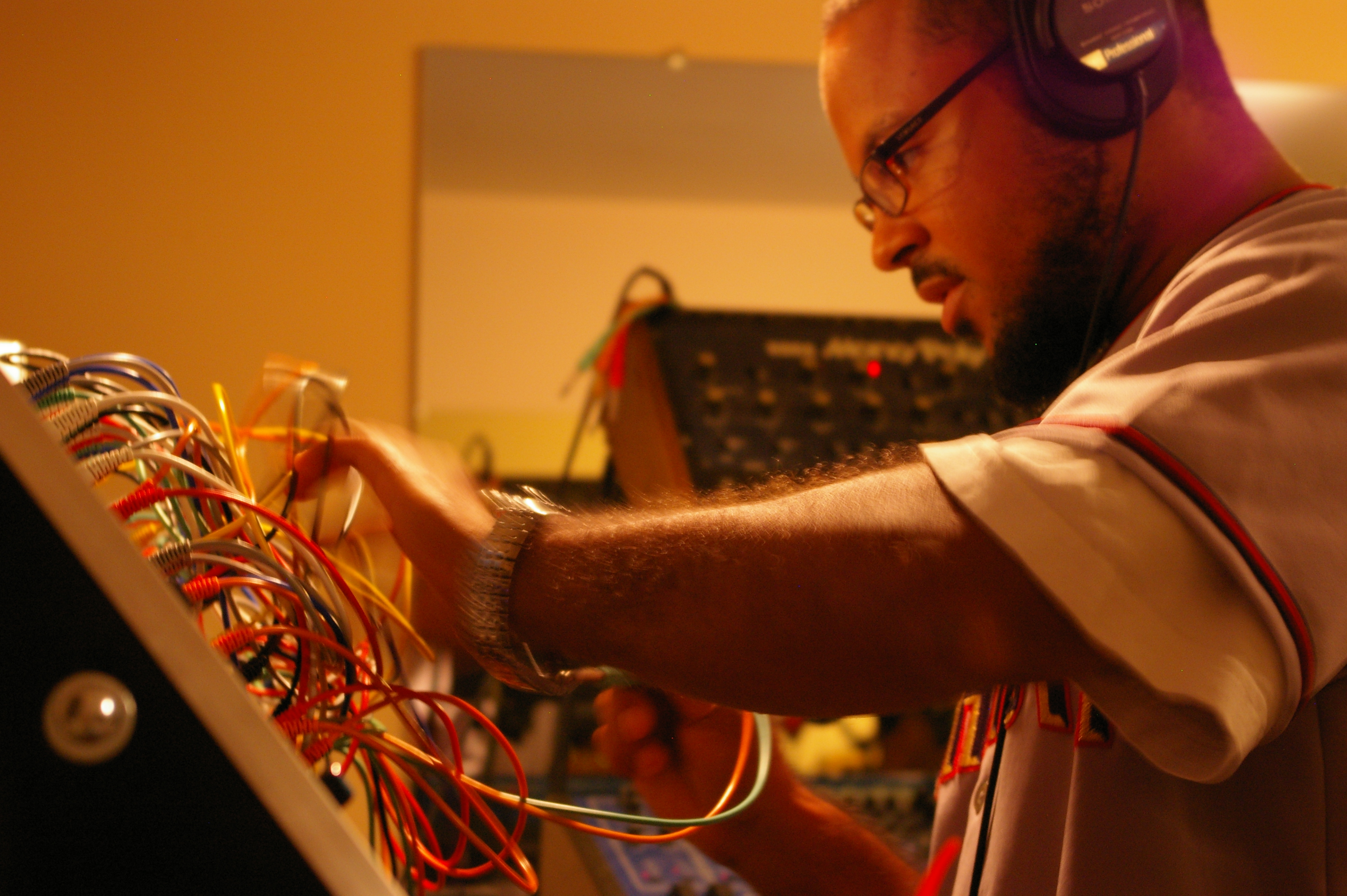 Jason Mosby in his studio (August 31st 2008)